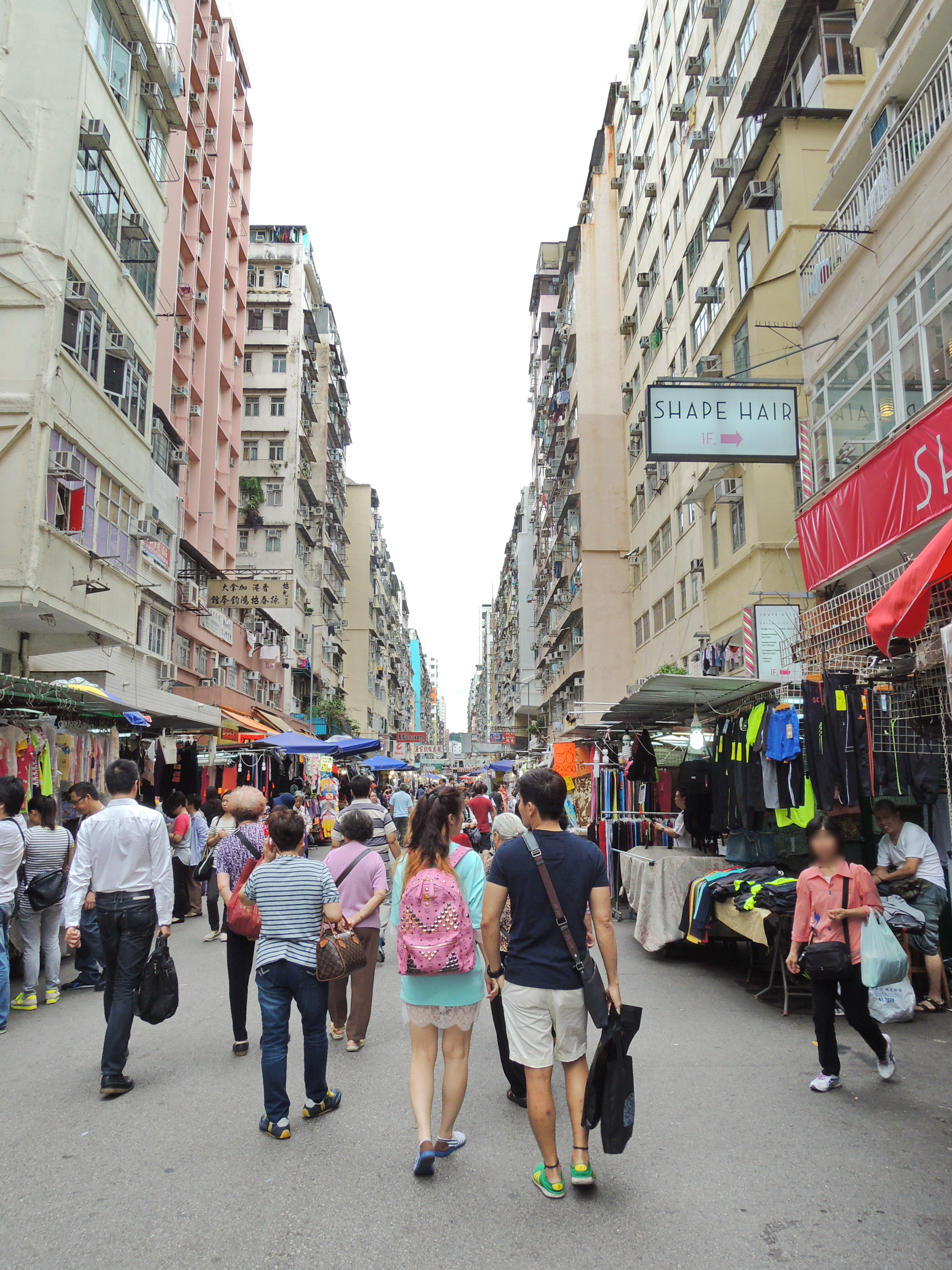 Fa Yuen Street near Nullah Road, Kowloon, Hong Kong.